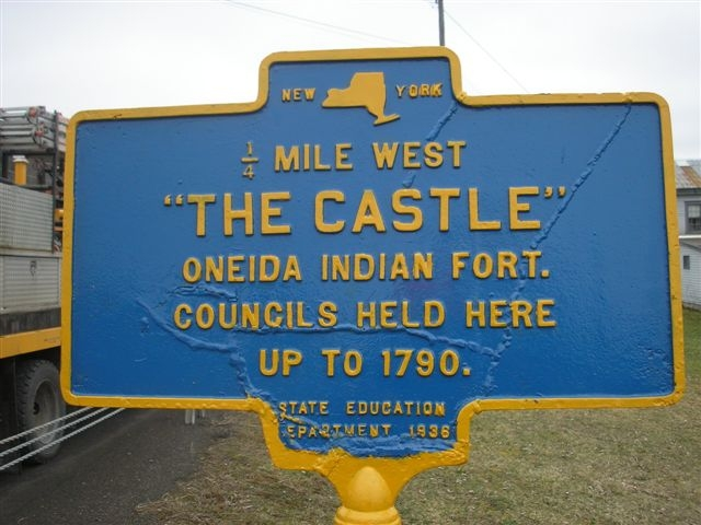 Historic marker of "The Castle", a Oneida Indian Fort. Councils were held here up to 1790.